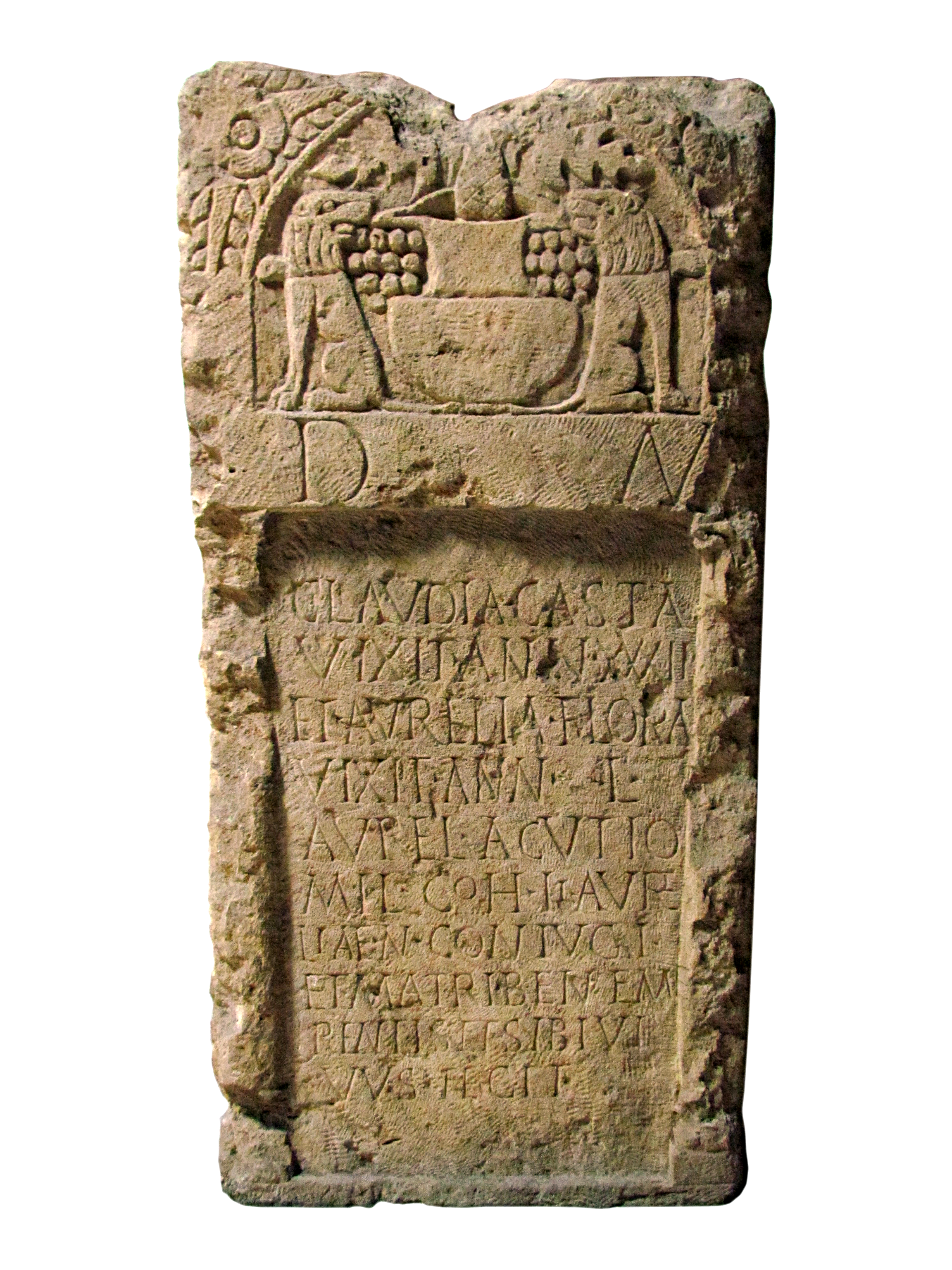 Ancient Roman epitaph, Moesia superior 201 AD – 300 AD, National Museum of Serbia